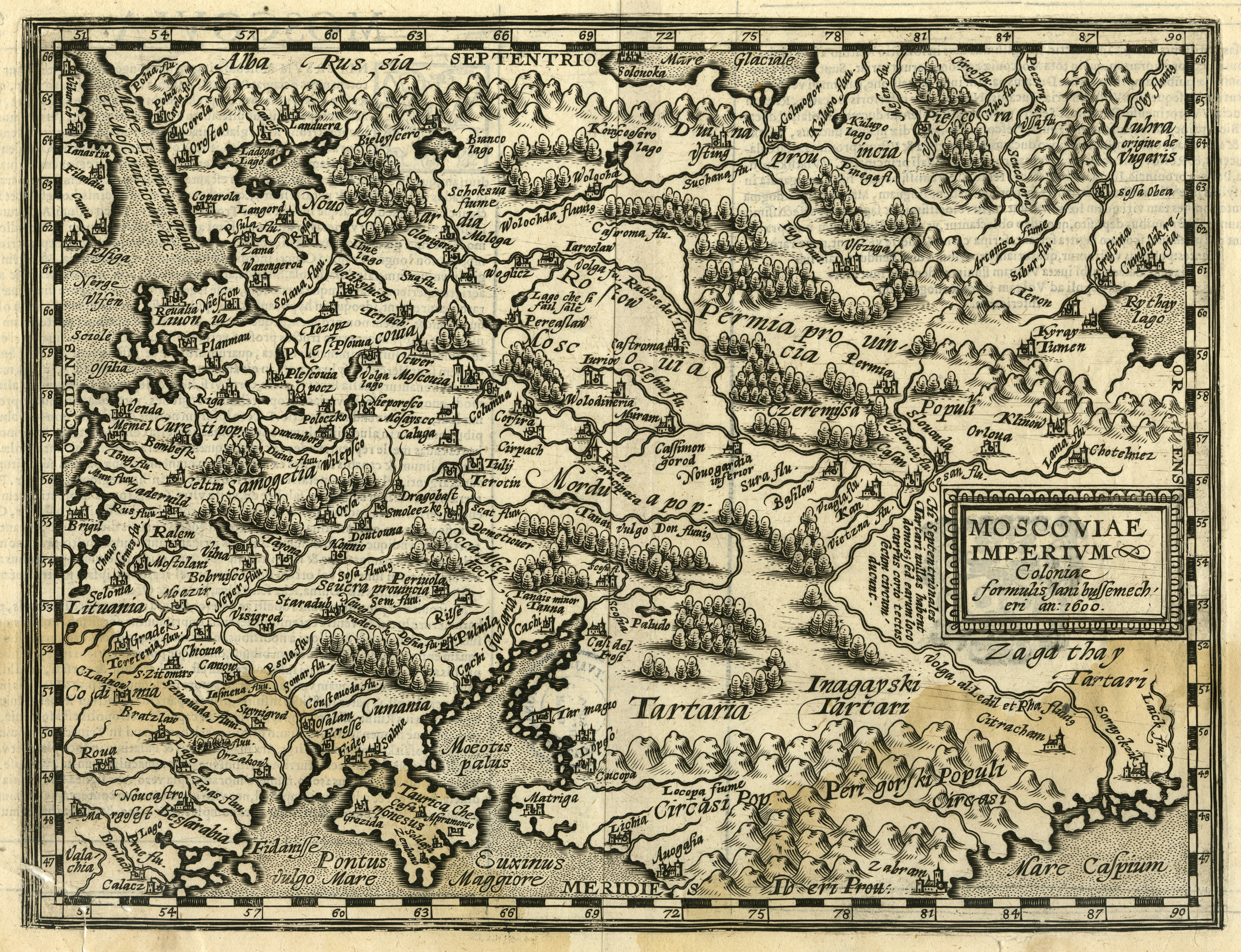 The map of Muscovite Empire includes also the territory of old Livonia and the North-eastern part of the Baltic Sea. The map depicts the end of the 16th century – the beginning of the 17th century cartographers’ notion of the Baltic Sea coastlines geographic view, which is of interest to us. Even though in the territory of present-day Latvia only a few place-names are noted (Riga, Venda, Dunemborg, Duina fluu., and Cureti pop.) and the coastline is significantly misrepresented, the map is testimony to the increasing geographical knowledge in Europe about our land. The map is included in M. Quad’s atlas published in Cologne in 1608. This map is a copy of G. A. Magini’s map of Moscowy, which was first published in the 1596 edition of Claudius Ptolemy’s Geography.